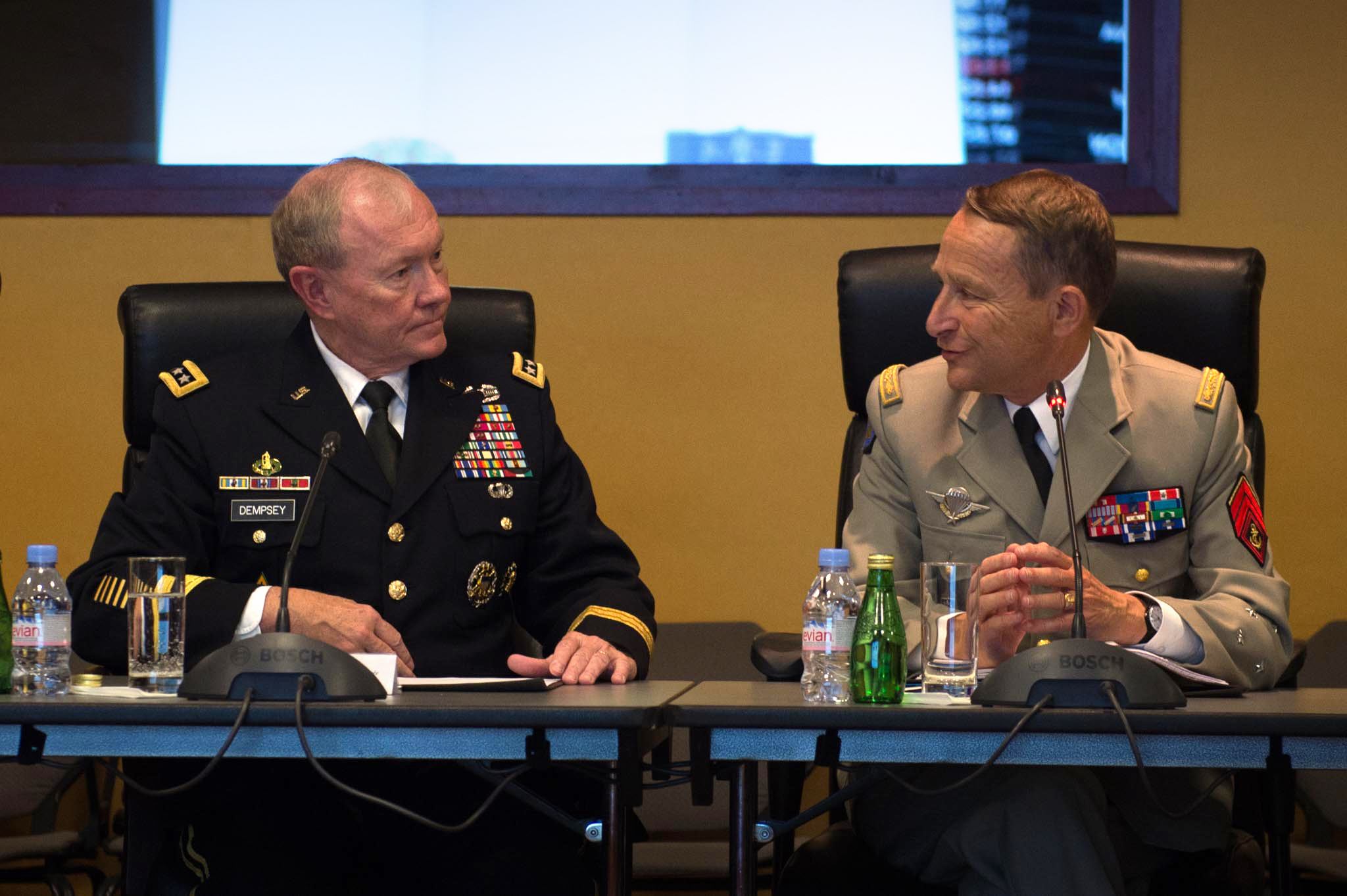 Chairman of the Joint Chiefs of Staff U.S. Army Gen. Martin E. Dempsey, left, and French Chief of Defense Staff Gen. Pierre de Villiers meet with their staff at the French Ministry of Defense in Paris Sept. 18, 2014. (DOD photo by D. Myles Cullen/Released)